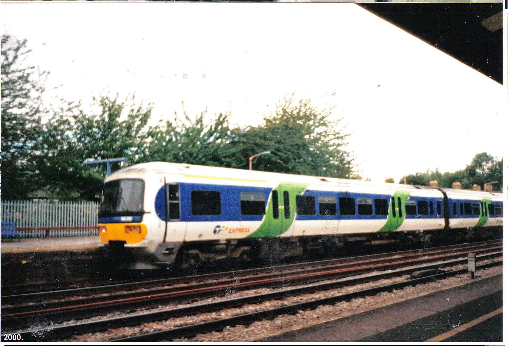 Thames Trains Turbo Express Class 166 at Oxford station in the year 2000.